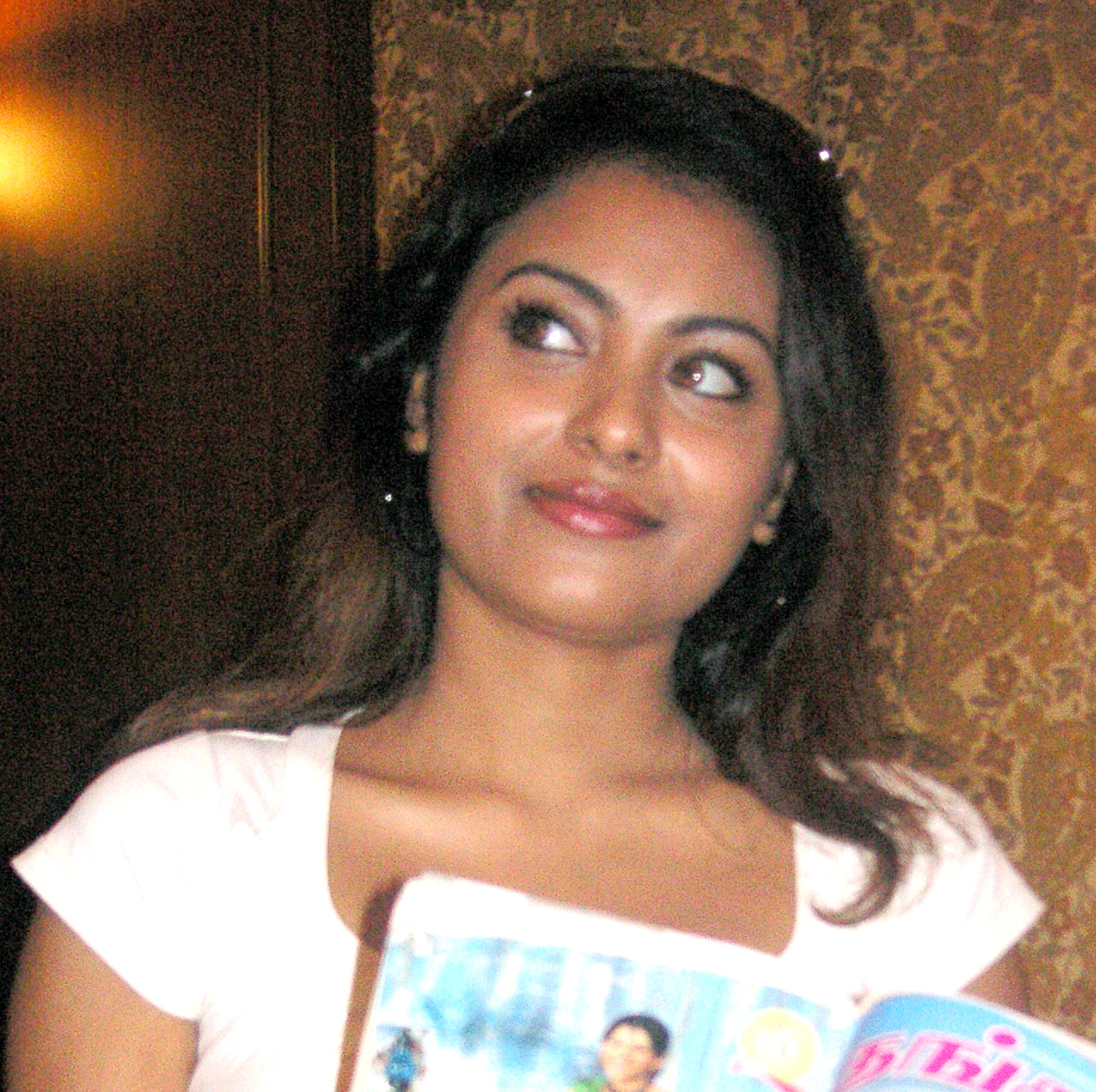 Meenachi